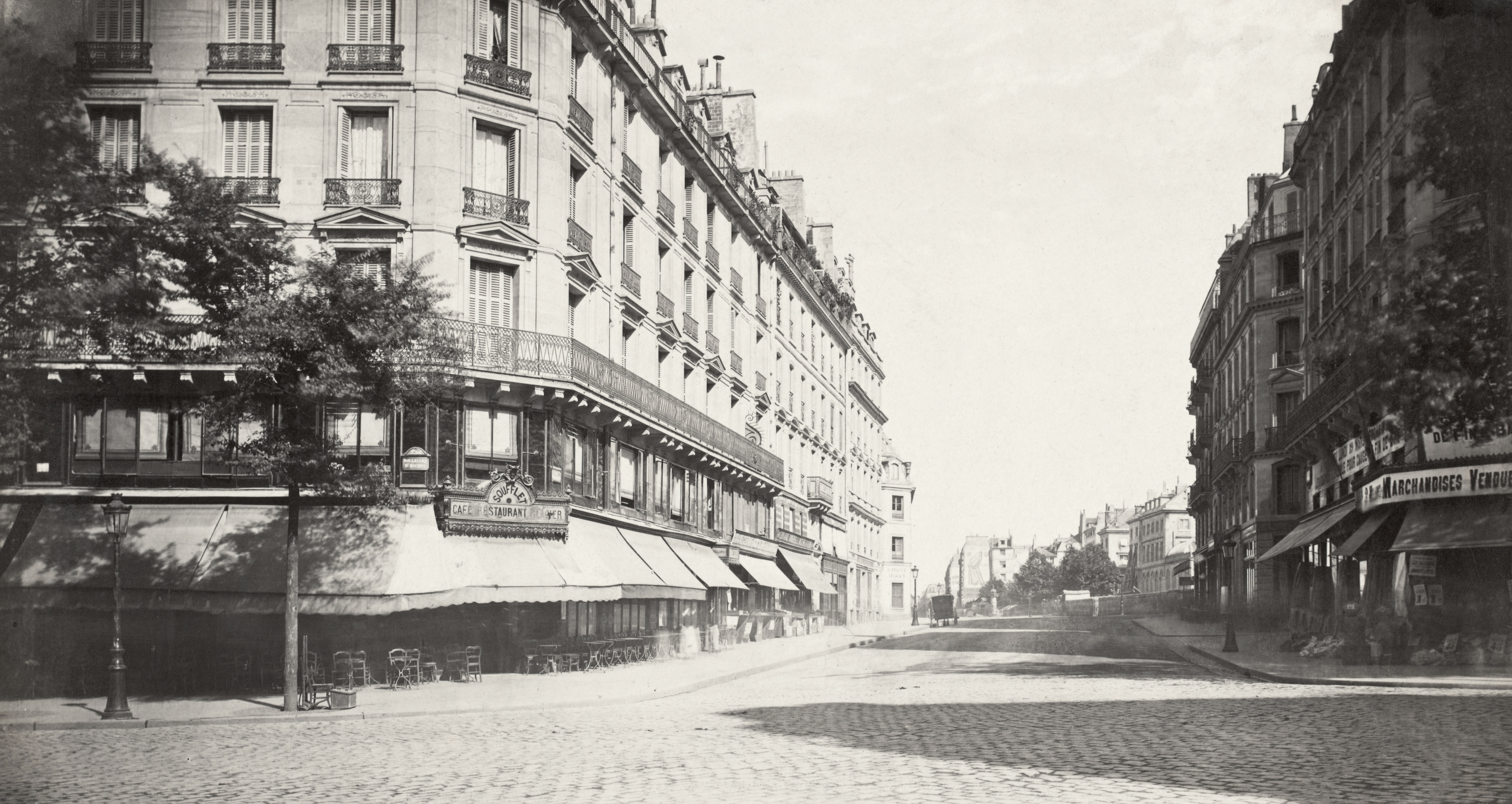 Taken from the Boulevard St. Michel: Looking along cobbled street, multi storey buildings with balconettes on each side of road, Soufflet café restaurant on ground floor on left , chairs and tables along path.